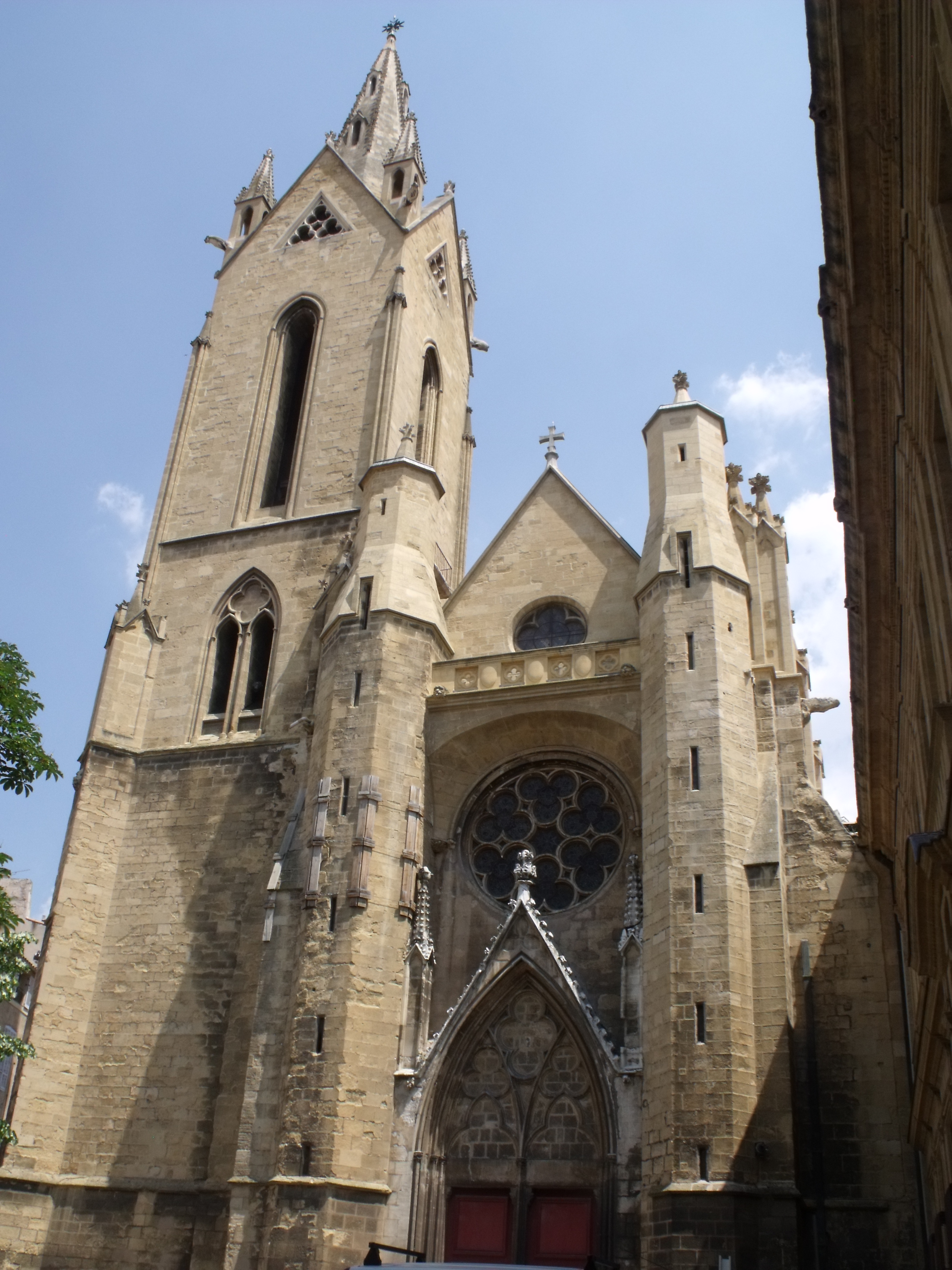 In this square - Place St Jean de Malte is Musee Granet and L'Eglise St-Jean de Malte. There is also a library with old and new books. This old church building is L'Eglise St-Jean de Malte. The Church of St Jean of Malta, a fortified Gothic church was built at the end of the 12th century. This chapel of the old priory of the Knights of Malta formerly contained the tombs of the Counts of Provence.